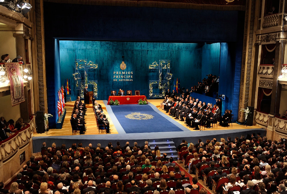 Prince of Asturias Awards Ceremony 2010.